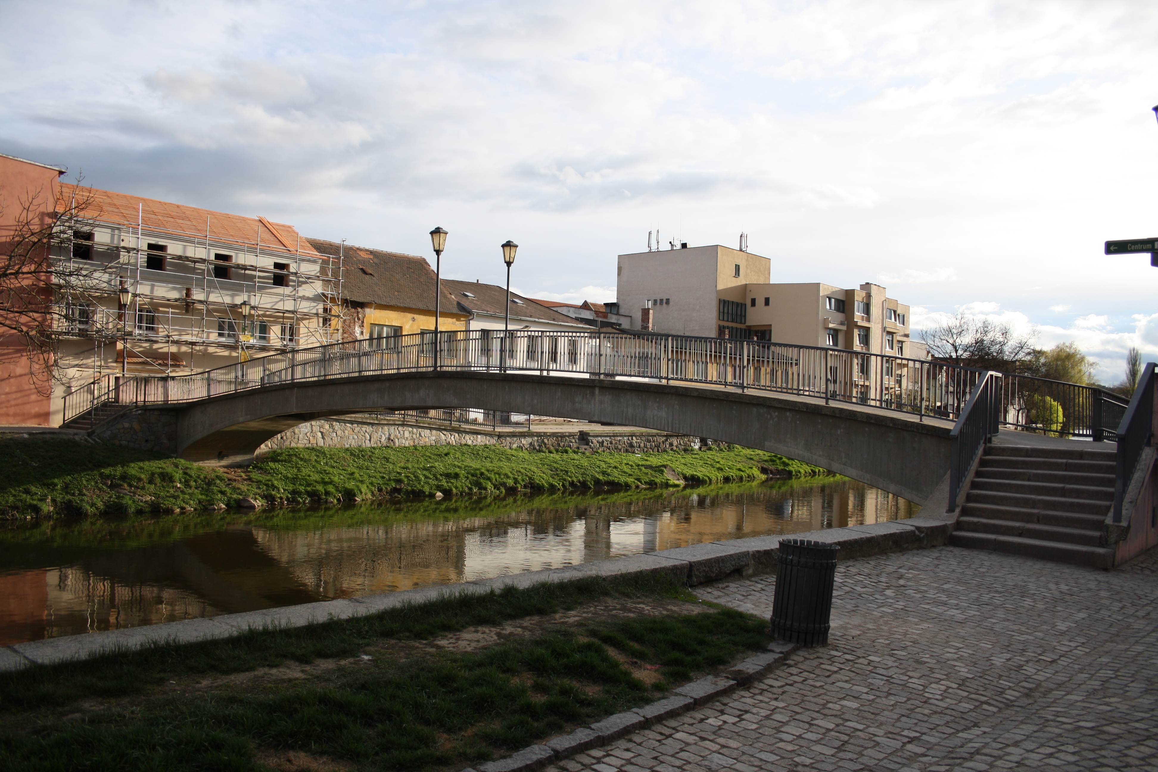 Foot bridge of plk. Jindřich Svoboda in Třebíč, Czech Republic.